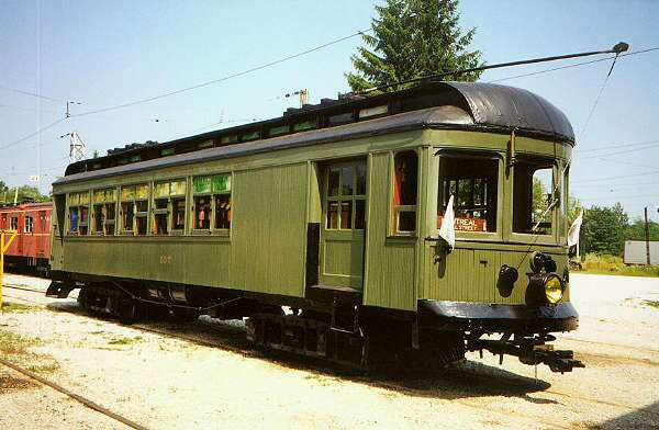 Montreal & Southern Counties 107, an interurban combine restored and operated by the Halton County Radial Railway. Photo by Frank Hicks.